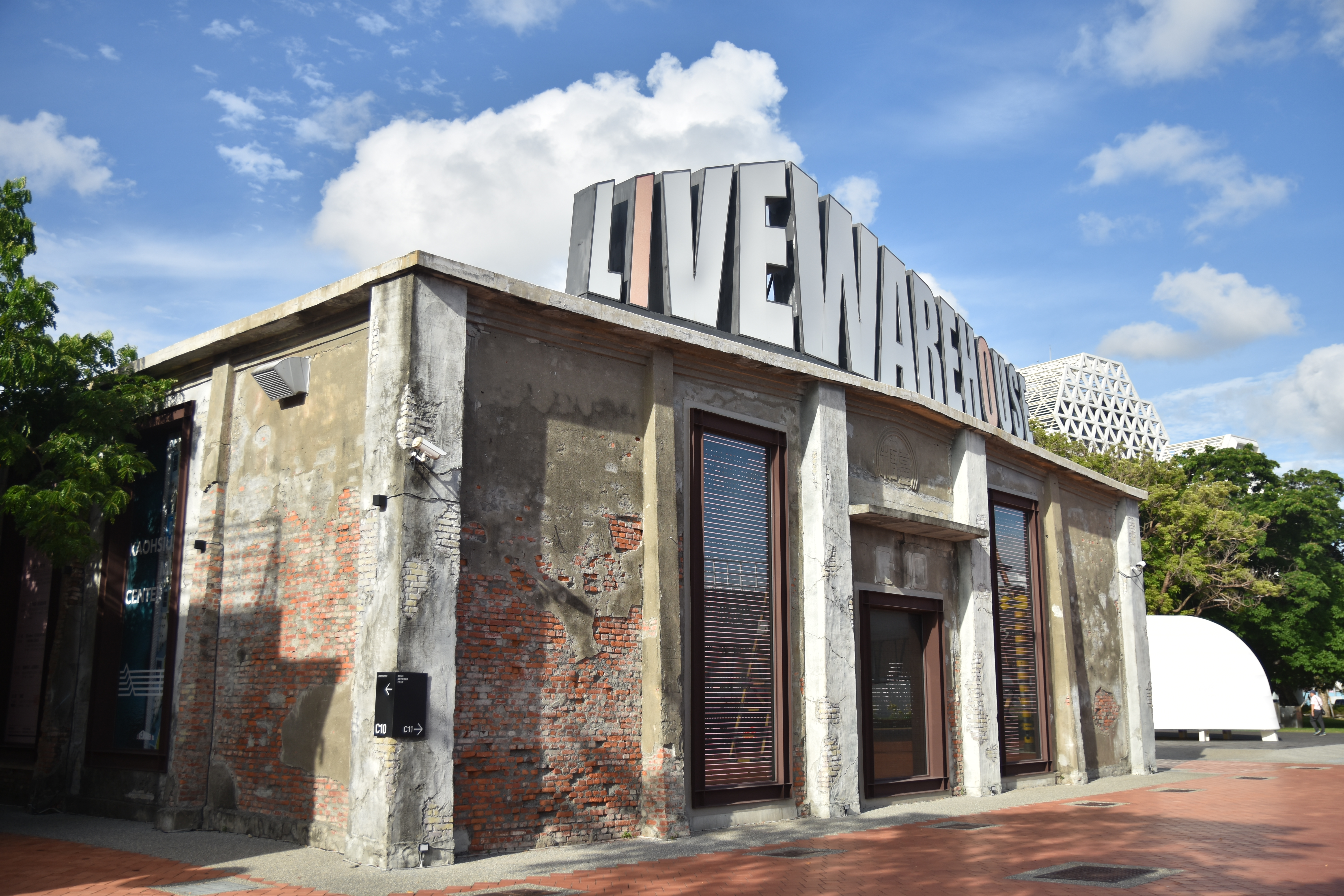 LiveWarehouse (Kaohsiung)